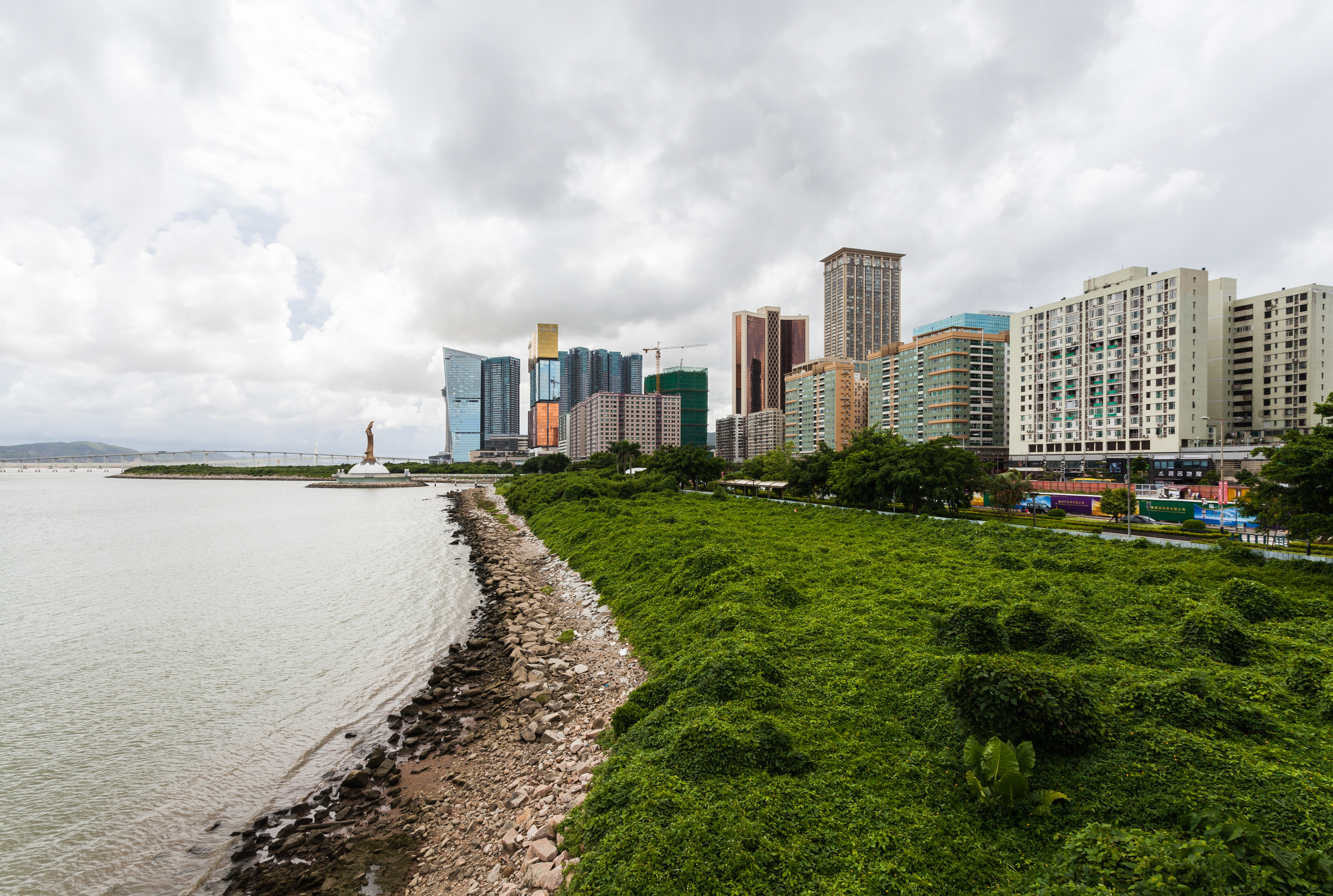 View of the casinos from Science Center, Macau